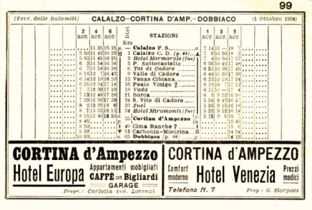 Dolomitenbahn timetable 1924